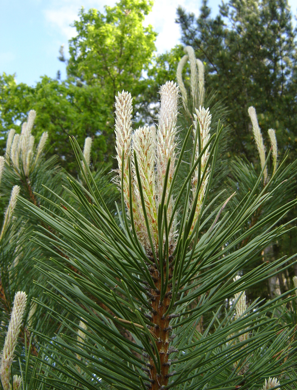 Pinus nigra subsp. nigra expanding buds in spring, Bulgaria